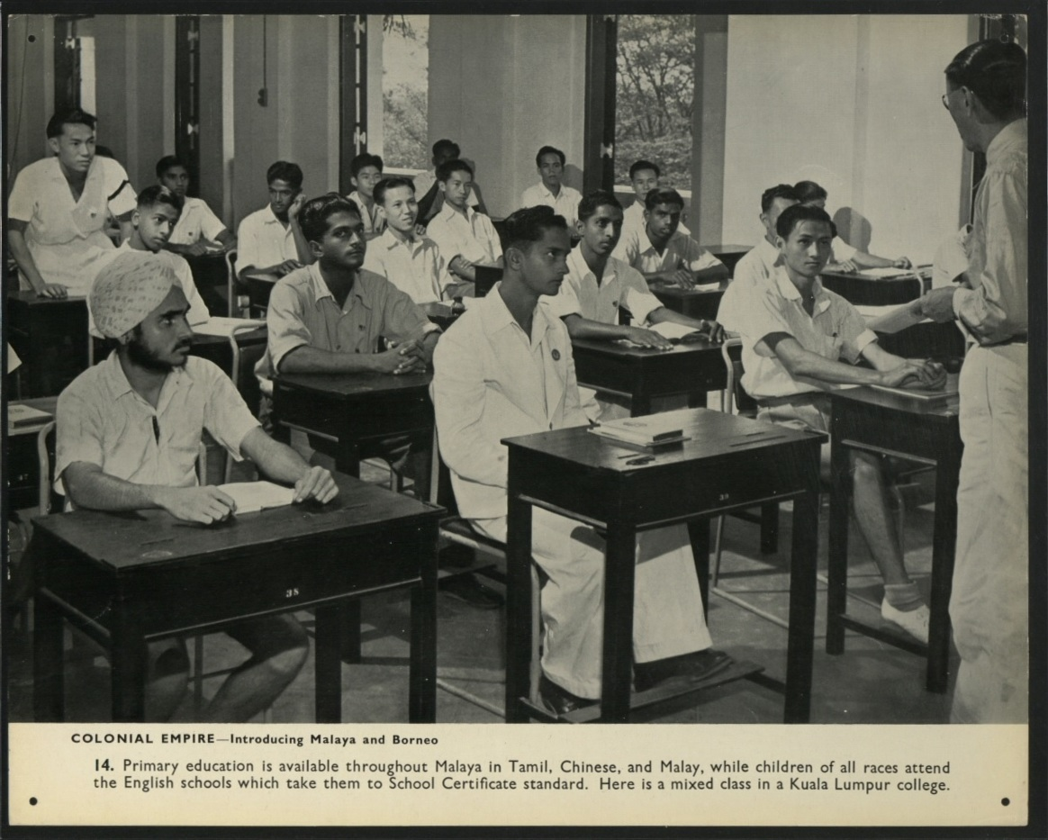 Description: Primary education is available throughout Malaya in Tamil, Chinese, and Malay, while children of all races attend the English schools which take them to School Certificate standard. Here is a mixed class in a Kuala Lumpur college. Location: Kuala Lumpur, Malaya, Borneo Our Catalogue Reference: Part of CO 1069/493. This image is part of the Colonial Office photographic collection held at The National Archives. Feel free to share it within the spirit of the Commons. Please use the comments section below the pictures to share any information you have about the people, places or events shown. We have attempted to provide place information for the images automatically but our software may not have found the correct location. For high quality reproductions of any item from our collection please contact our image library